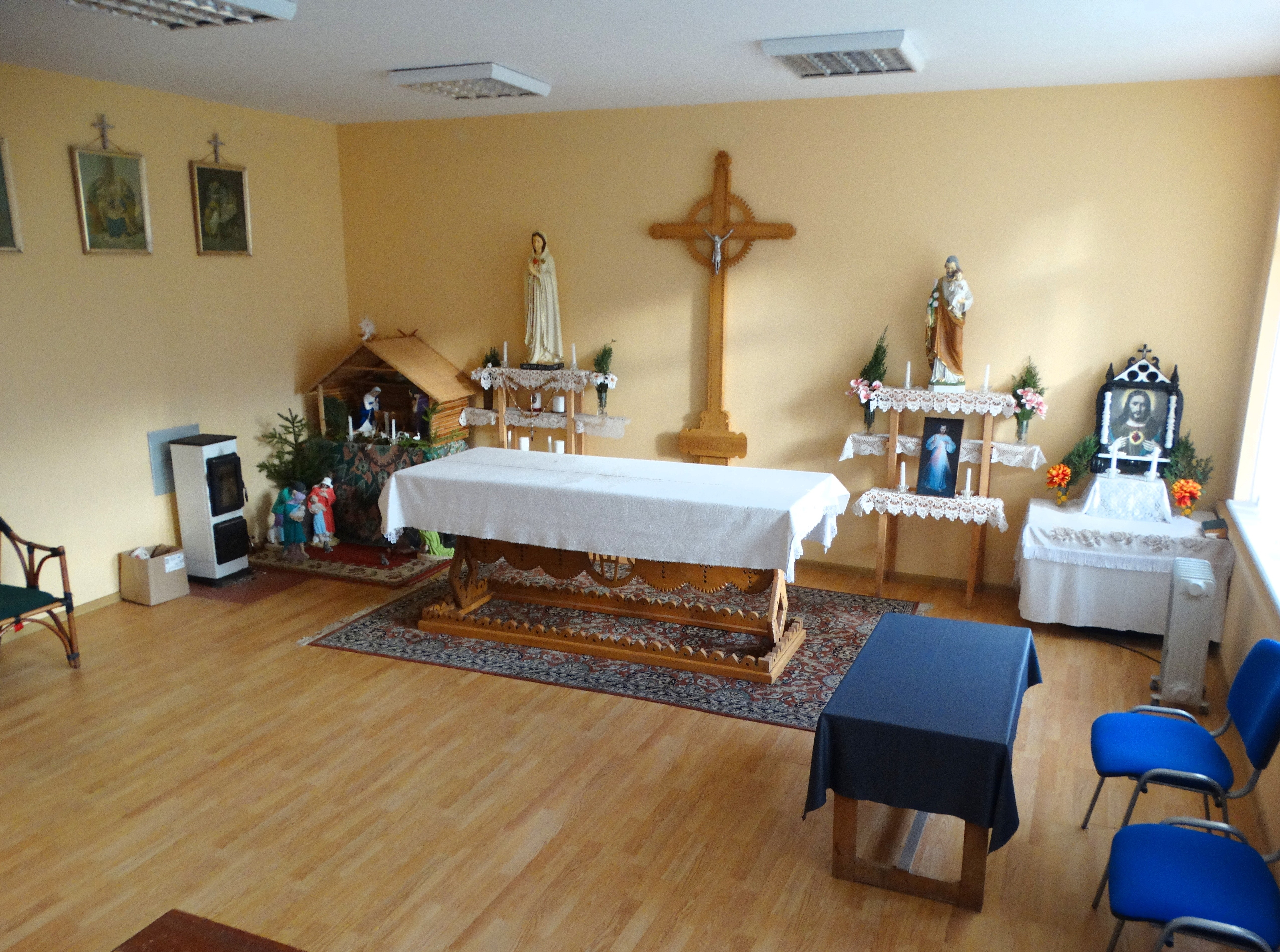 Chapel interior, Dainava, Kaišiadorys district, Lithuania